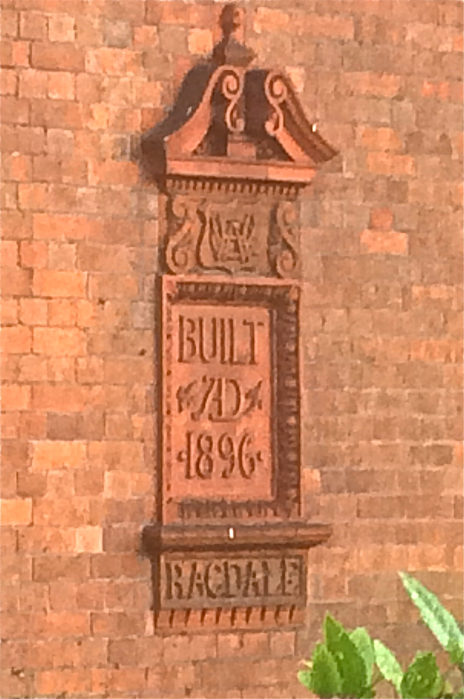 Terracotta date panel on no11, The Avenue, Lincoln